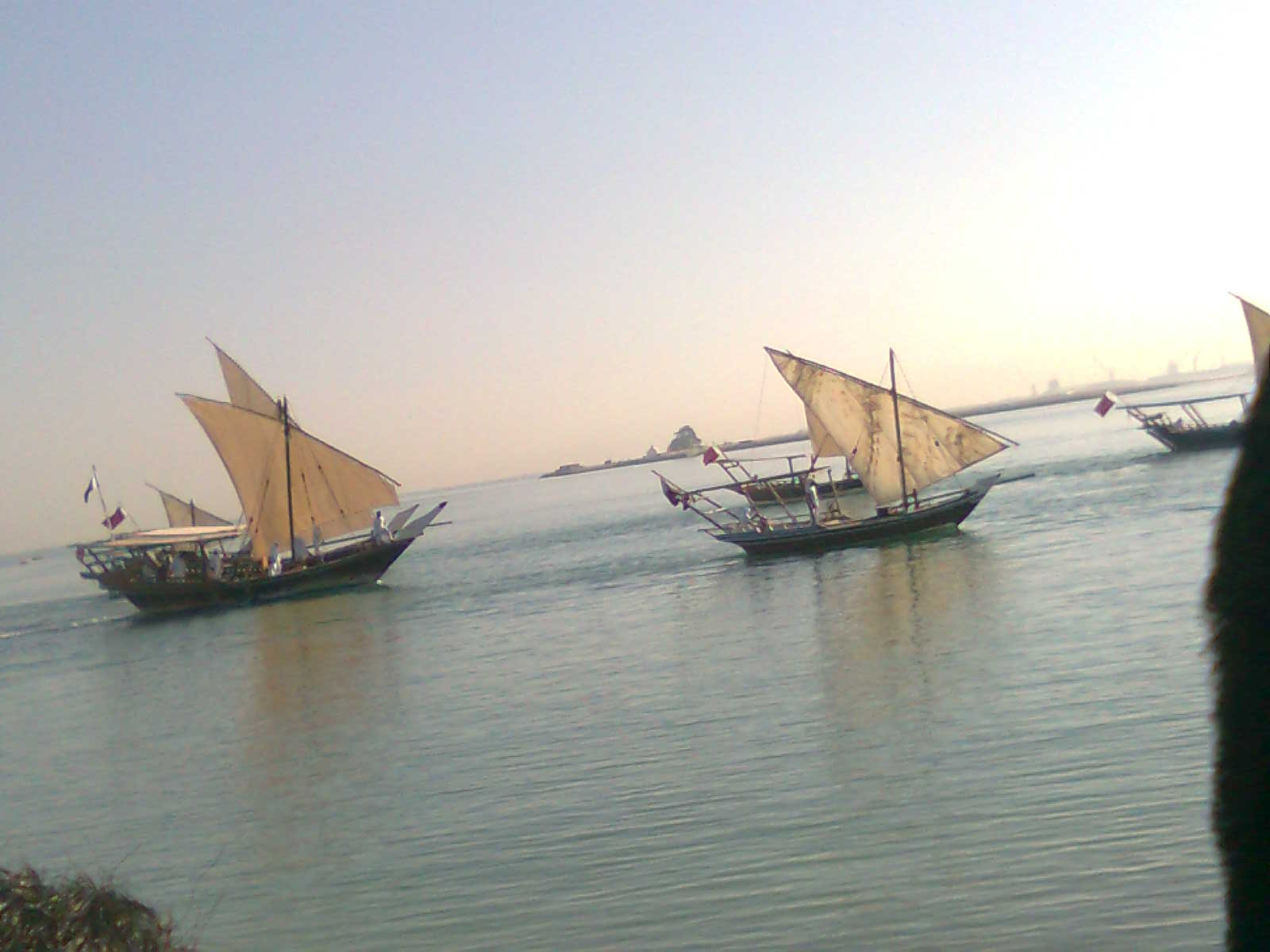 Qatar corniche